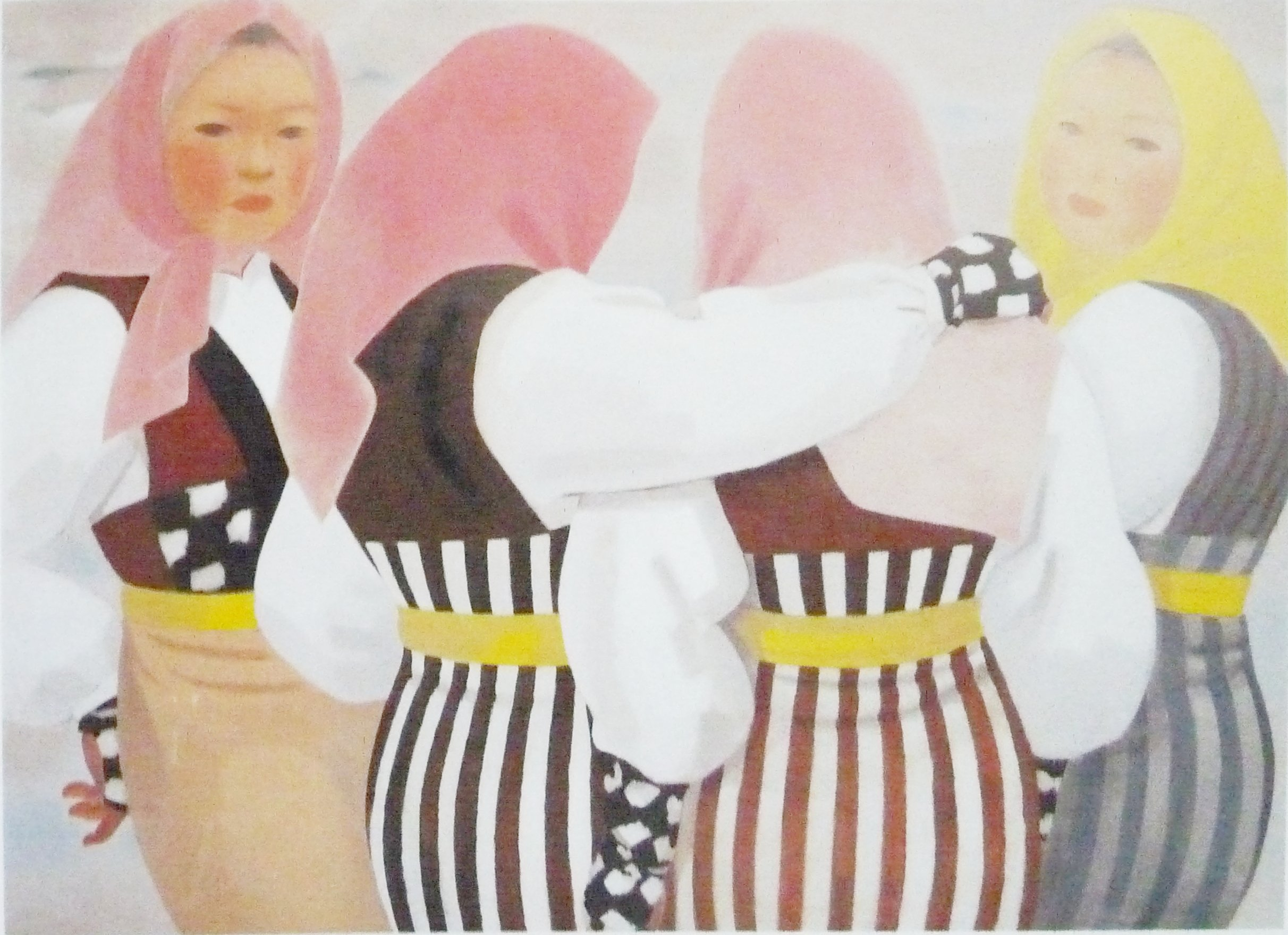 Shibata Yasuko "Merahado" (Yound Women)